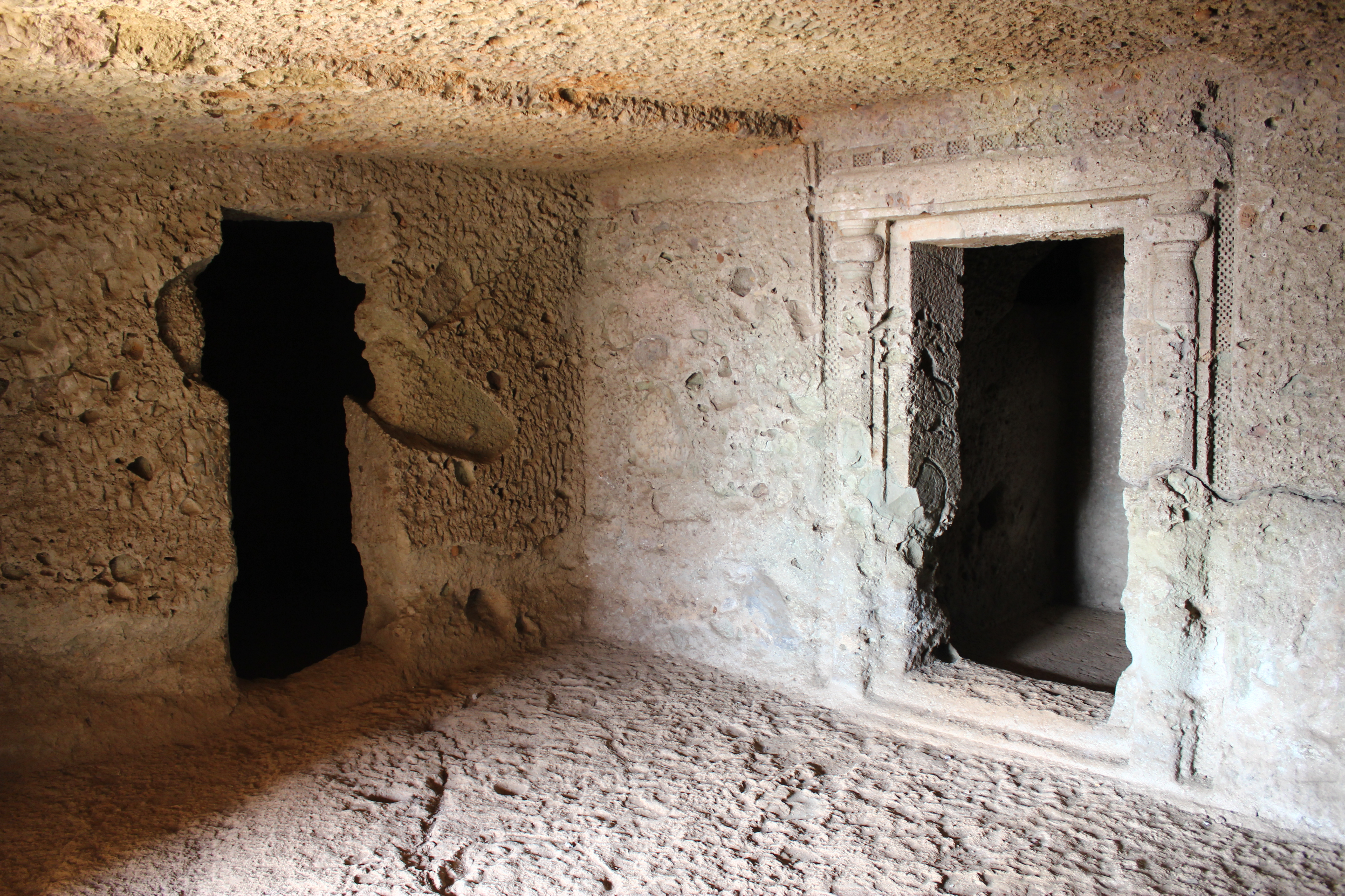 Jogeshwari